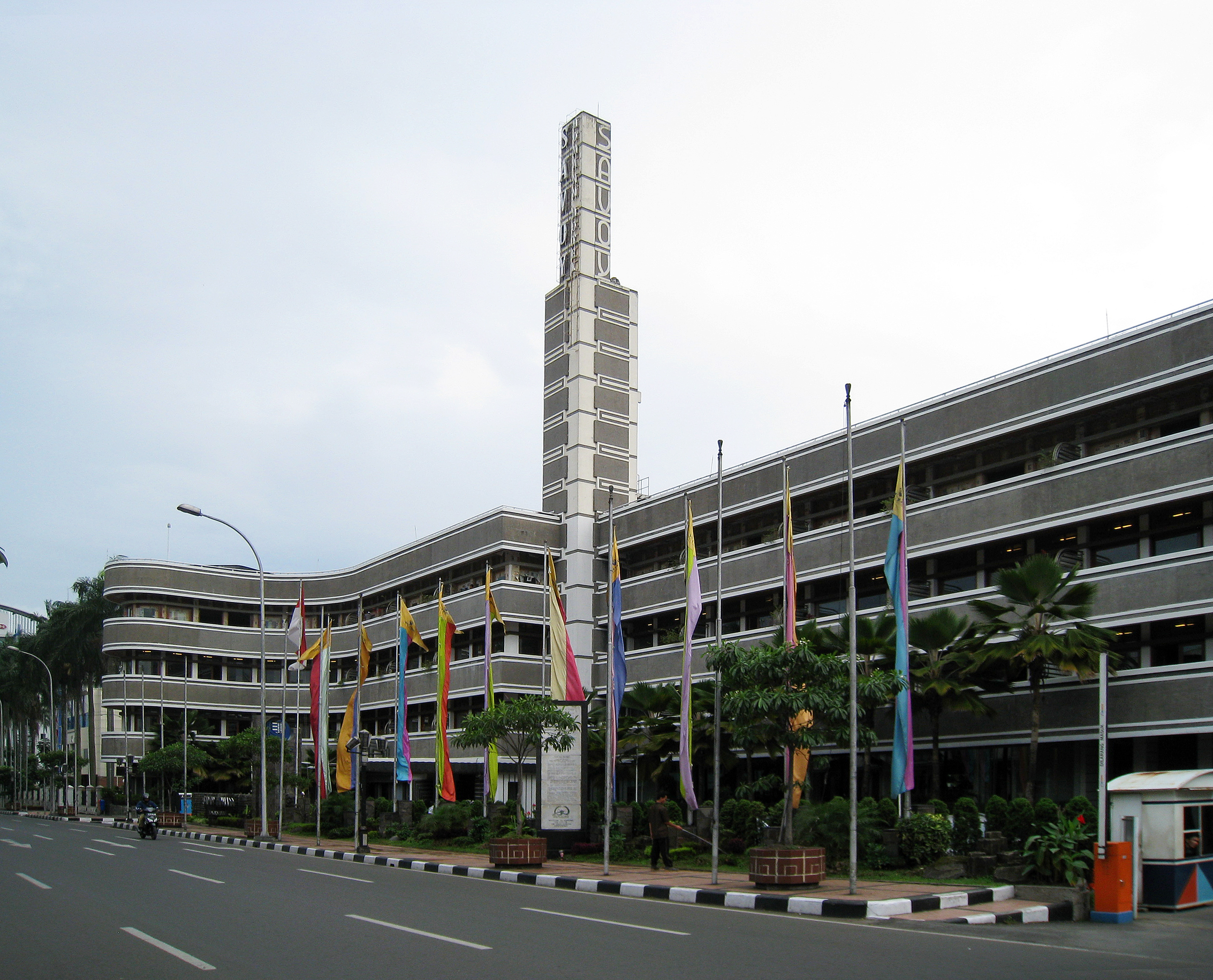 The historical Savoy Homann Bidakara Hotel in Jalan Asia Afrika No. 112 Bandung, Indonesia. A fine example of art deco pre-war East Indies colonial architecture.